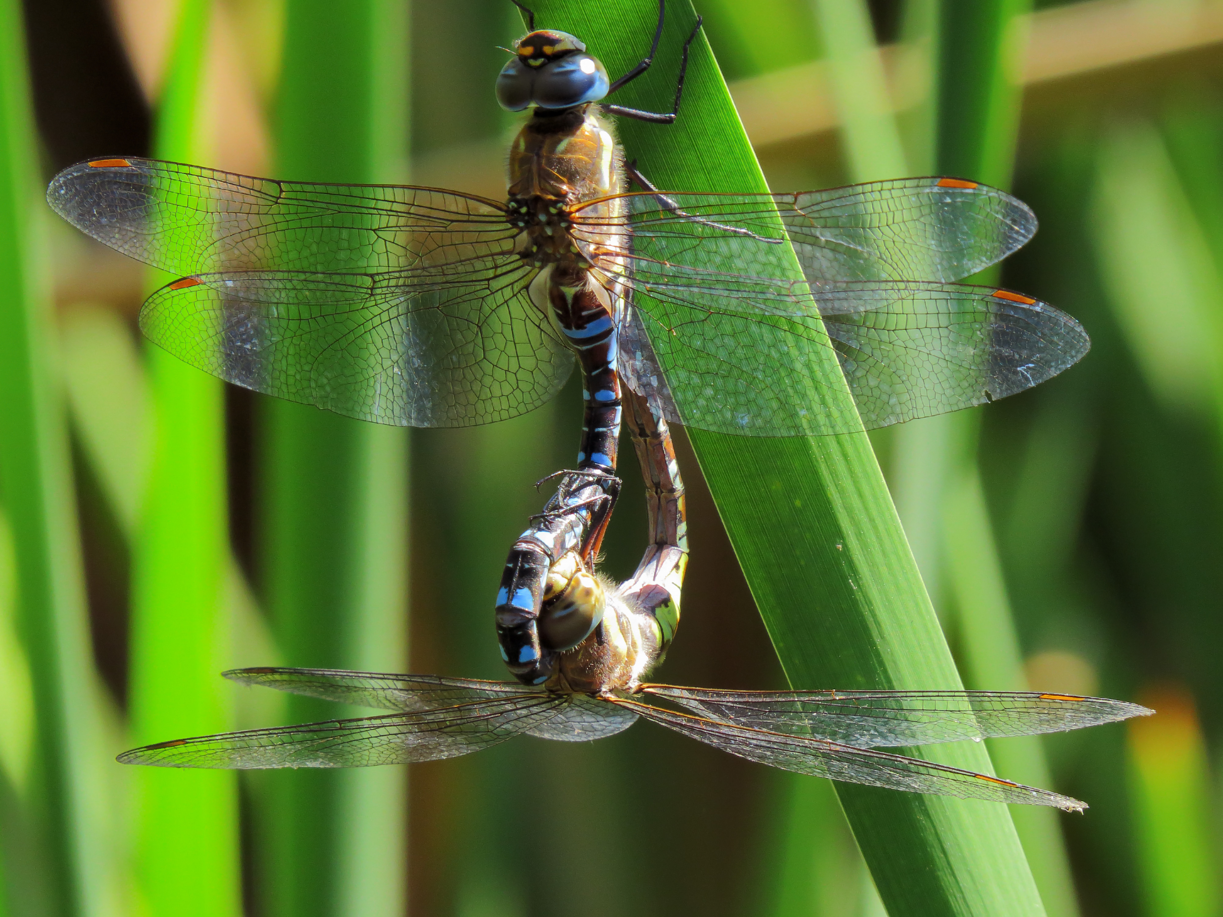 Aeshna juncea in Nyvky park, Kiev, Ukraine